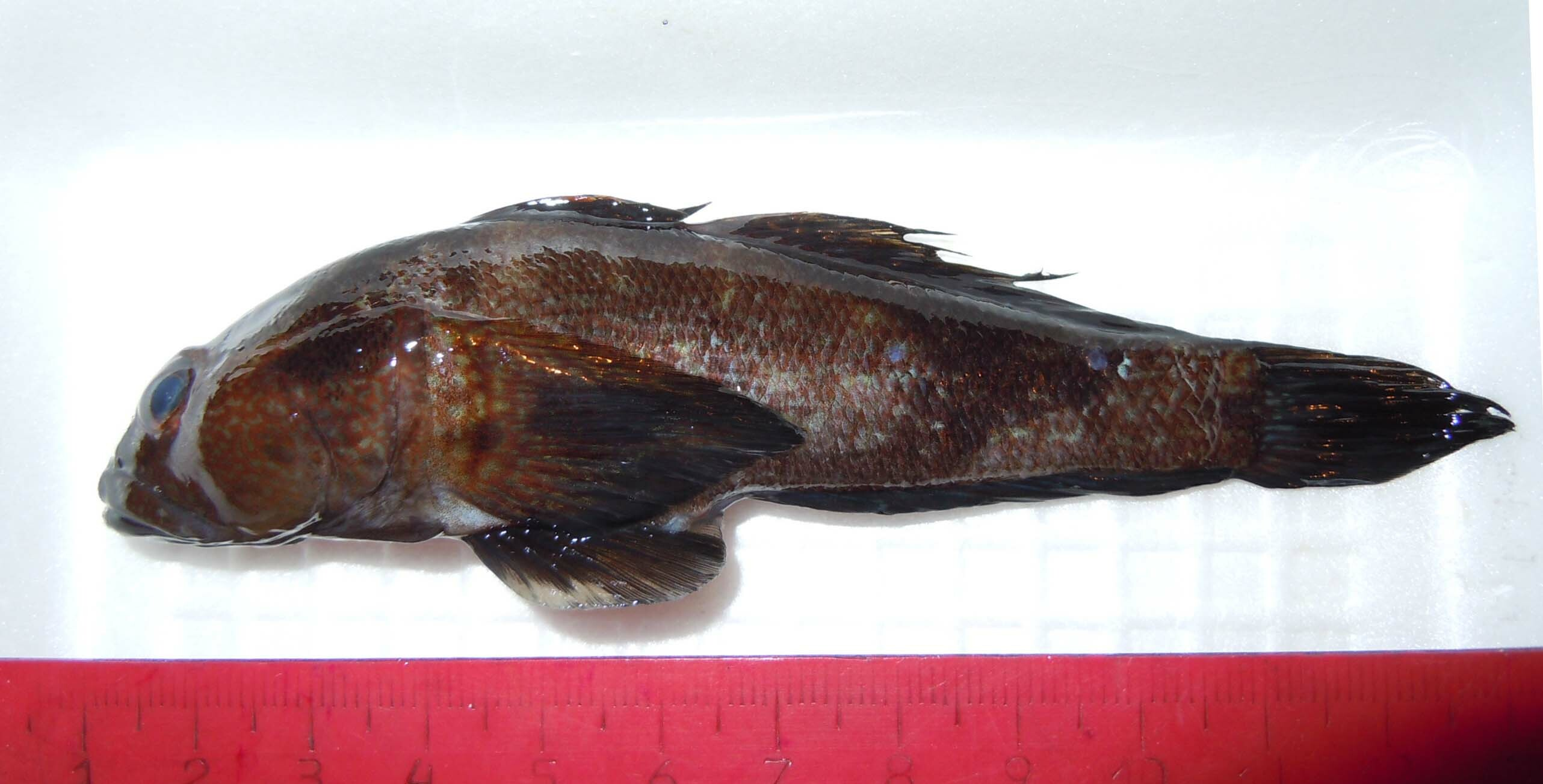 Pinchuk's goby (Ponticola cephalargoides) from the Gulf of Odessa in the Black Sea.